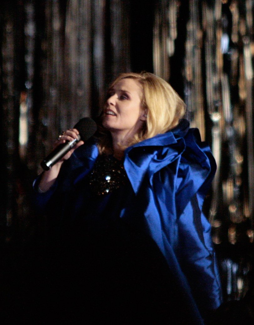 Róisín Murphy at the Life Ball 2009, Rathaus, Vienna.